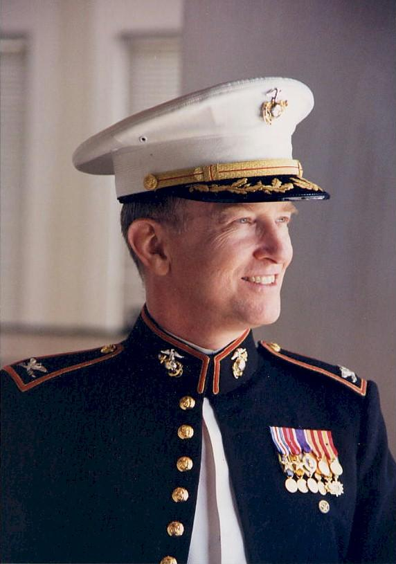 Photography of Colonel Ronald D. Ray